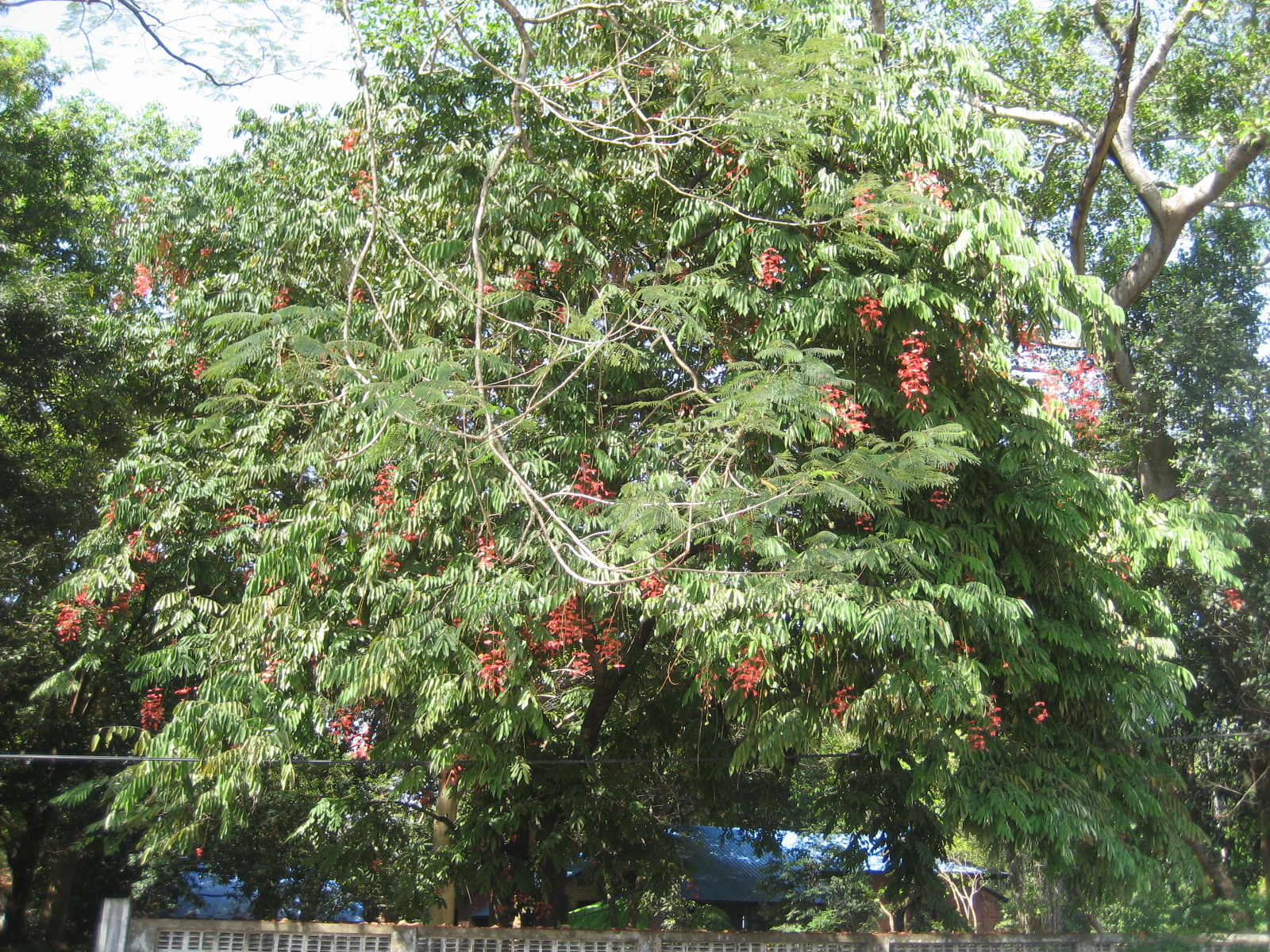 Amherstia Nobilis at Inya Road, Yangon, Myanmar